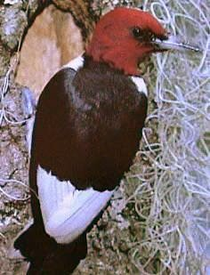 Red-headed Woodpecker (Melanerpes erythrocephalus)